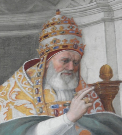 Detail from fresco of Pope Gregory IX approving the Decretals, 1511, Fresco Stanza della Segnatura, Palazzi Pontifici, Vatican, Vatican City State